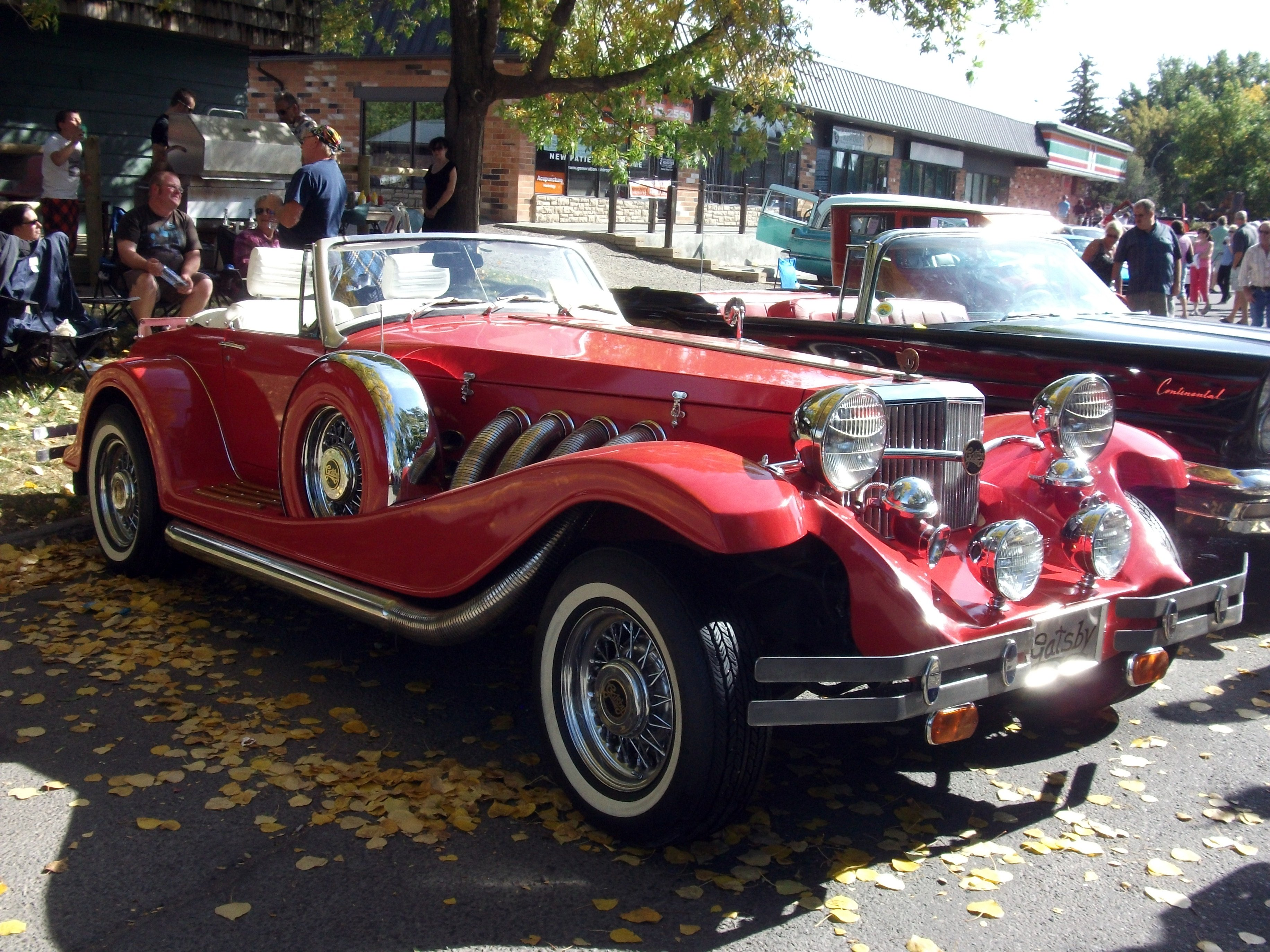 The neo-classic 1970 Gatsby (Gatsby Griffin?). They are interesting because a MG Midget body section is used on a Ford Thunderbird frame. "I believe the year is wrong on this one. They were built mostly in the late 70s." "I do enjoy seeing these as a representative of days gone by and a very different approach to classic cars. Not sure I'd ever own one though."